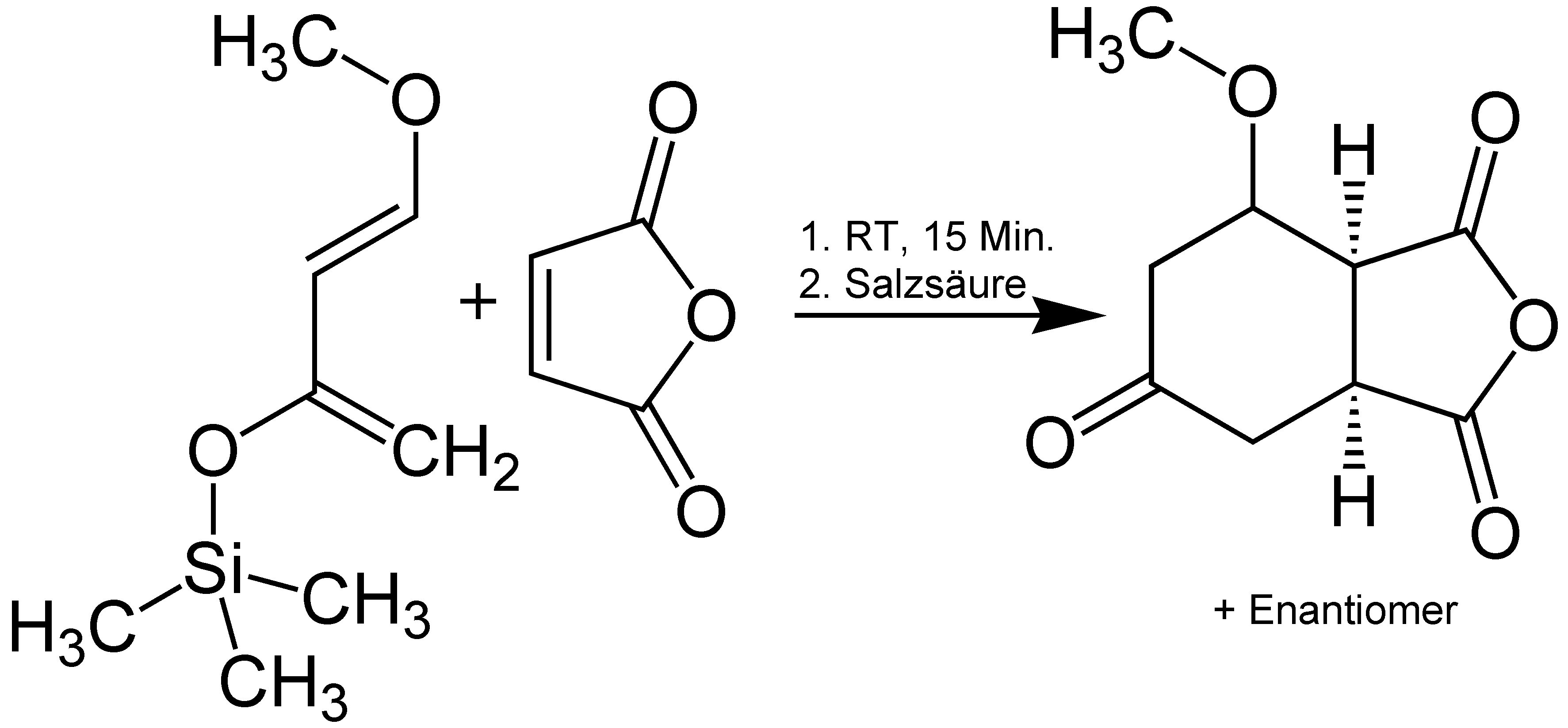 Danishefsky’s diene reacts with Maleic anhydride